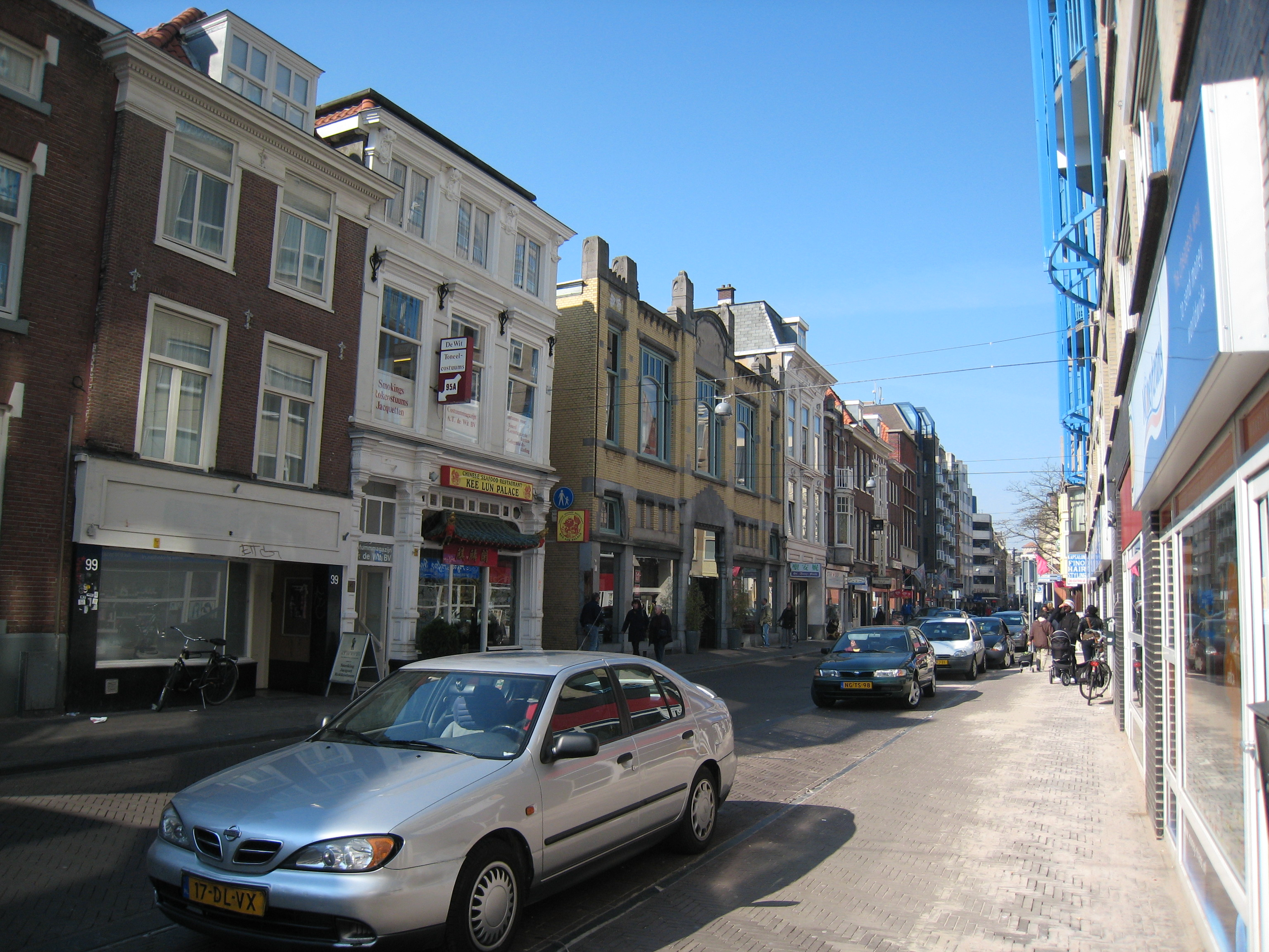 Wagenstraat in The Hague Chinatown